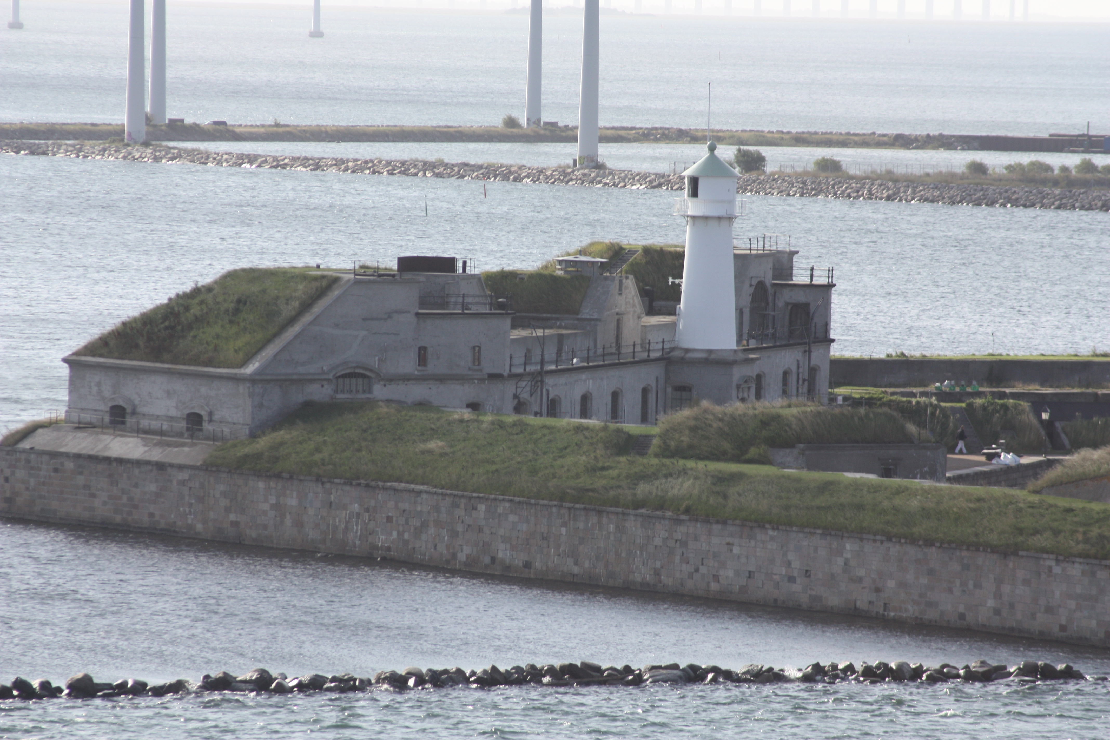 The "Trekroner" fort in the Øresund east of Copenhagen, Denmark